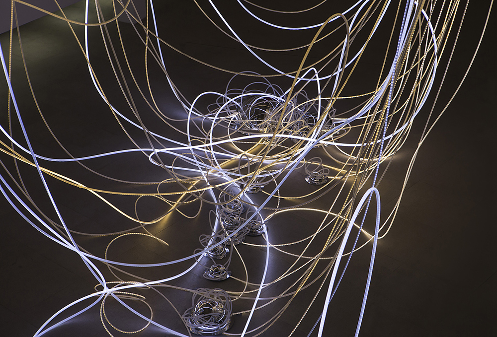 The Mirror Connection Museum of China Central Academy of Fine Arts by Grimanesa Amoros 2013